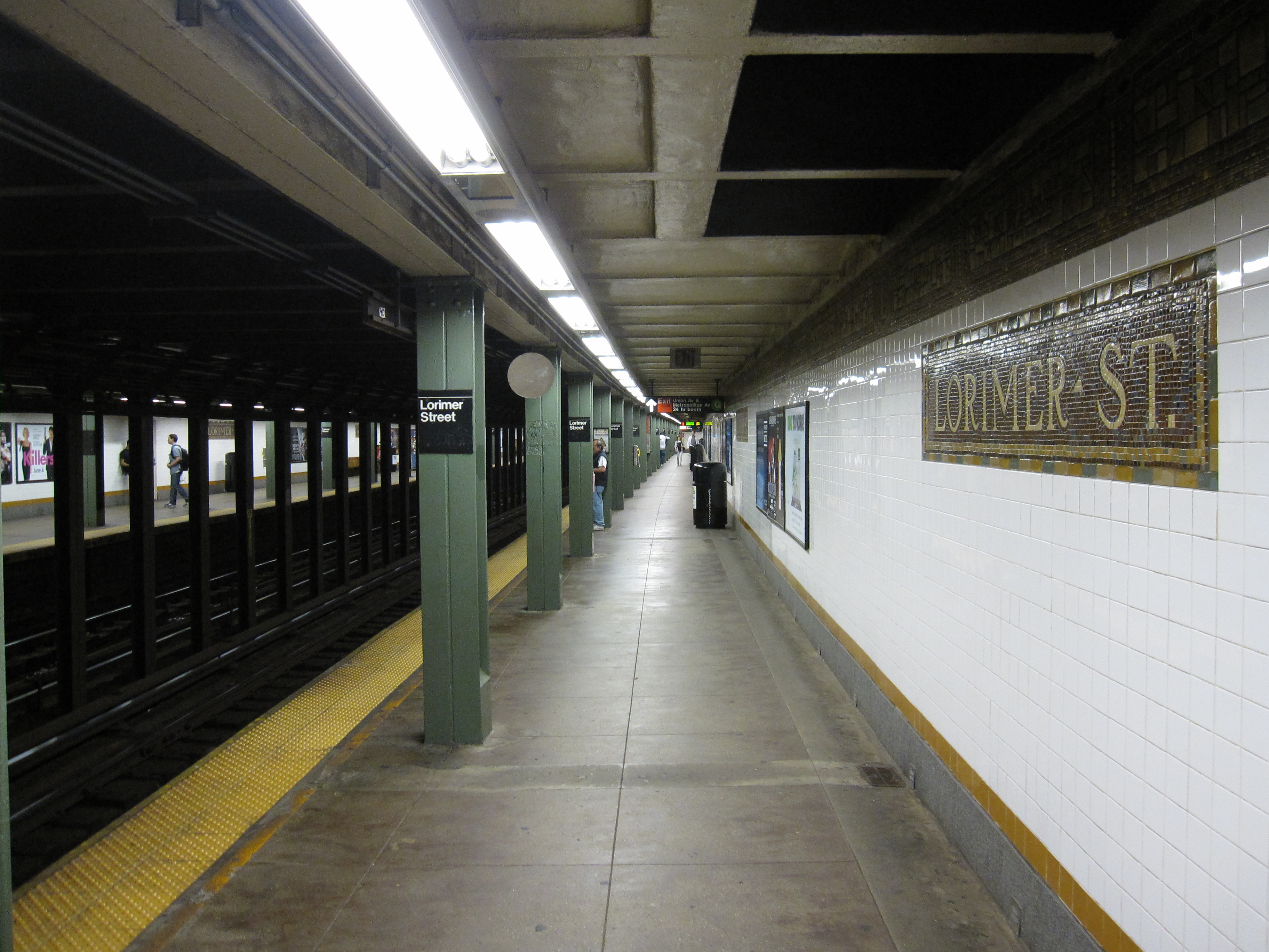 Lorimer Street (BMT Canarsie Line)